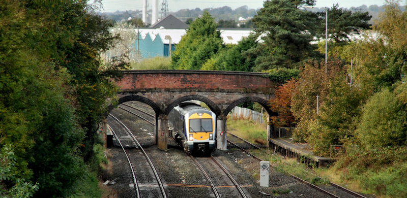 Former Knockmore station, Lisburn